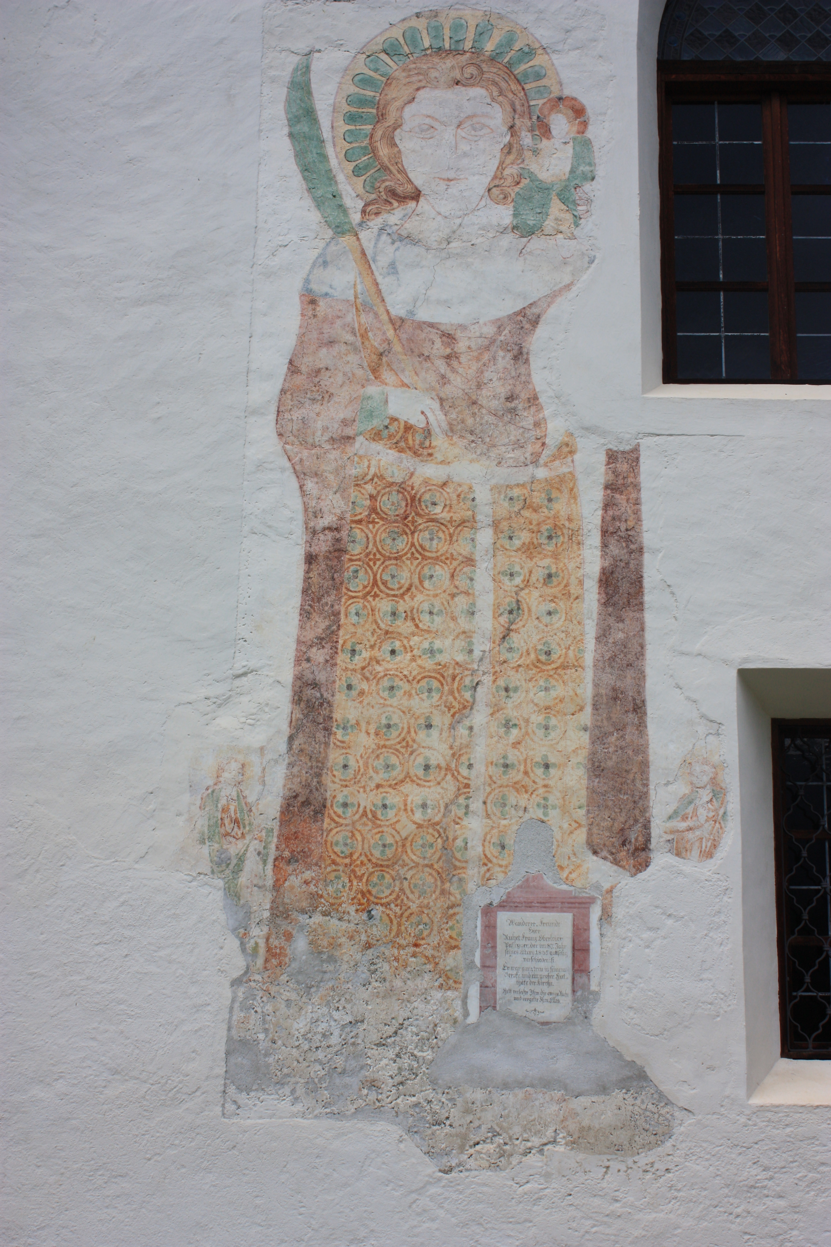 Parish church Saint Dionysius: Fresco of Saint Christopher; Locality:Irschen; Community:Irschen